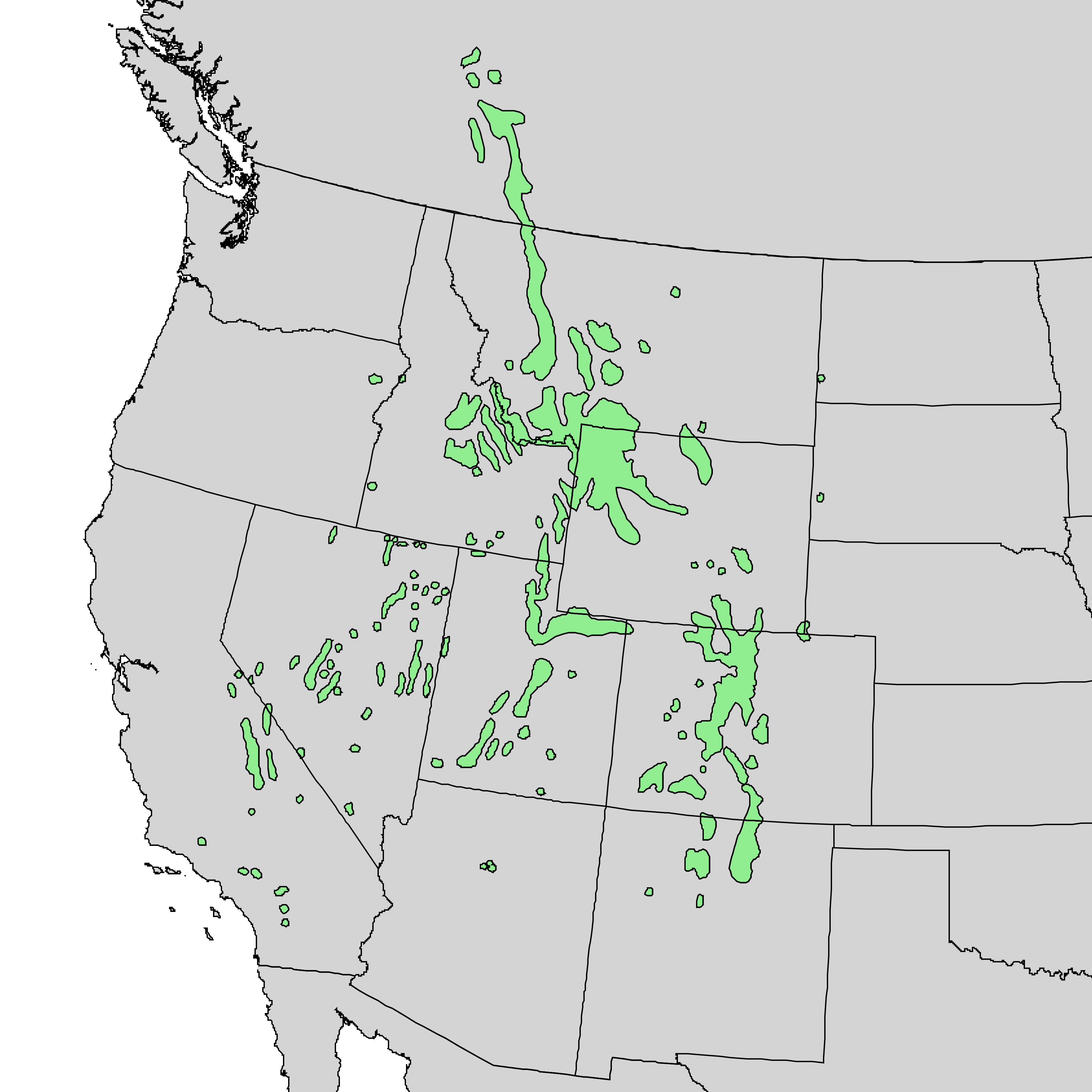 Natural distribution map for Pinus flexilis